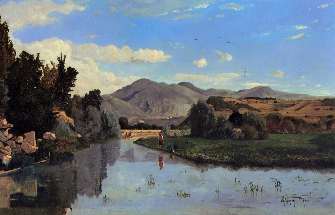 The Aiguebrun River at Lourmarin